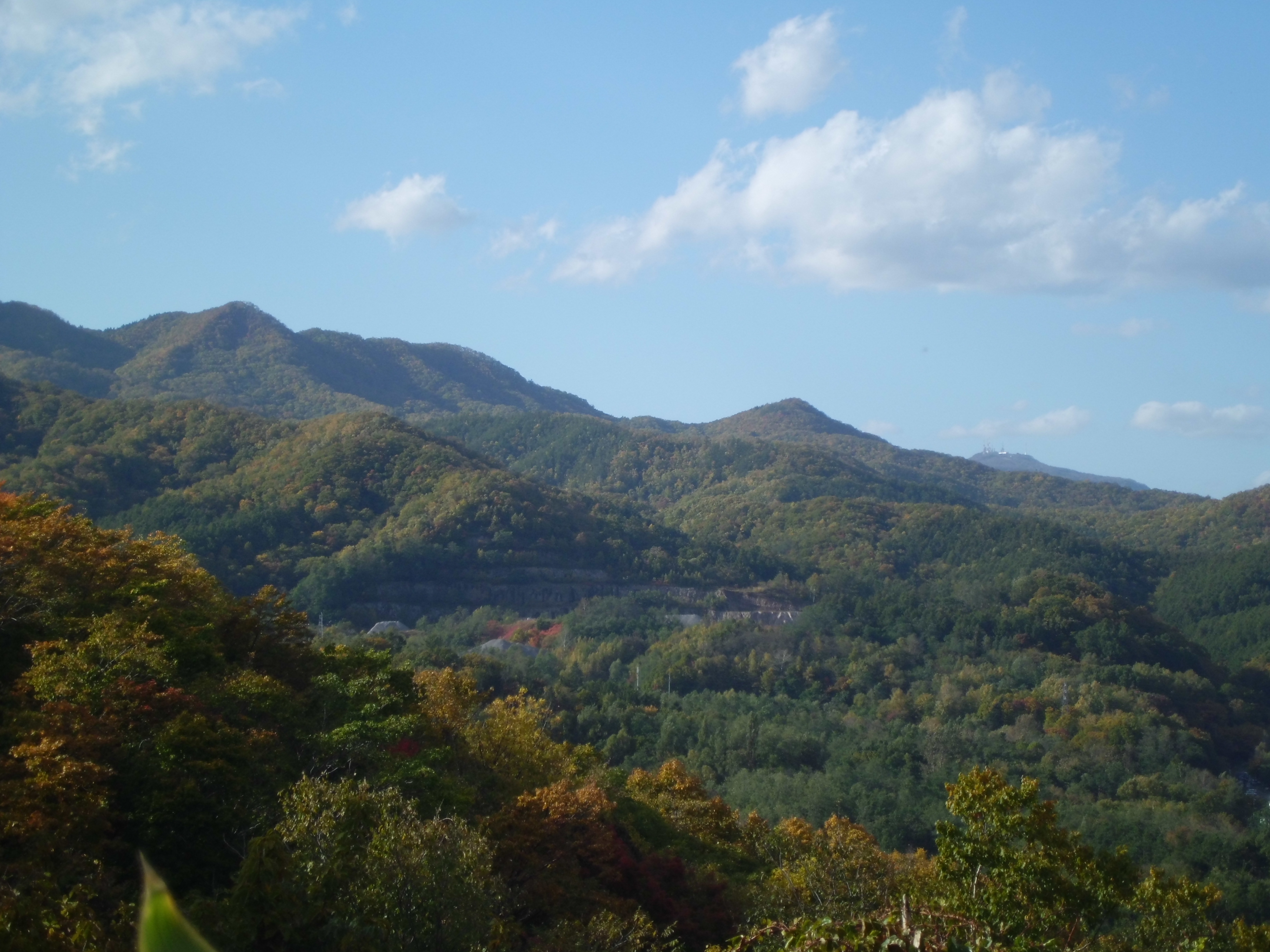 Looking northwest from Mount Kataishi